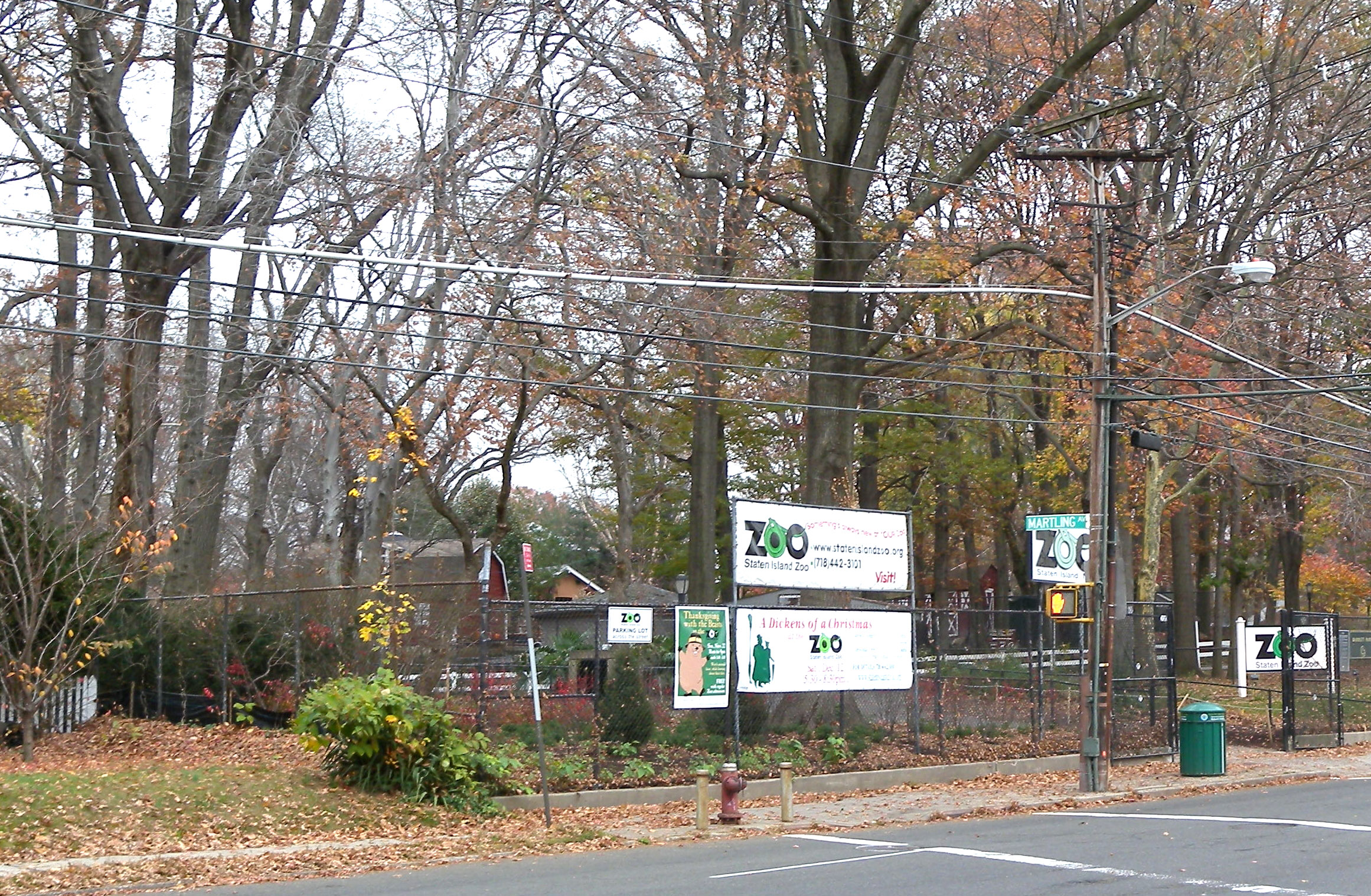 Looking northeast across Clove Road at the Martling Avenue (back) gate of the Staten Island Zoo on a cloudy midday.